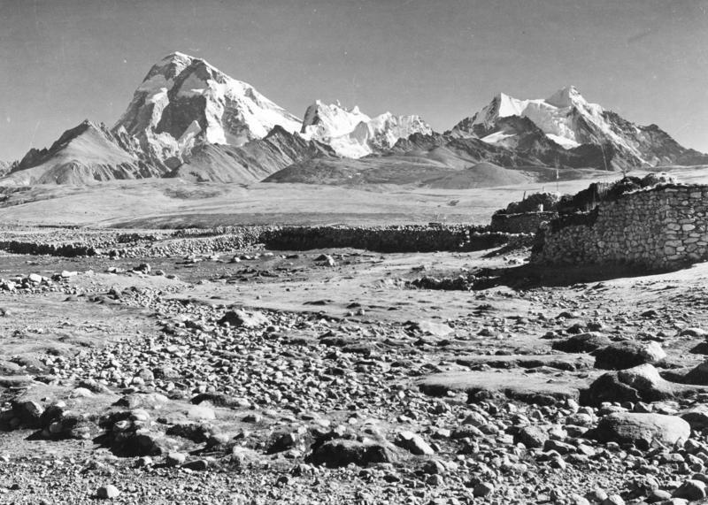 Tibetexpedition, Landschaftsaufnahme Phari, Steppe mit Chomolari [Chomolari, Chomolhari;] Information added by Wikimedia users.